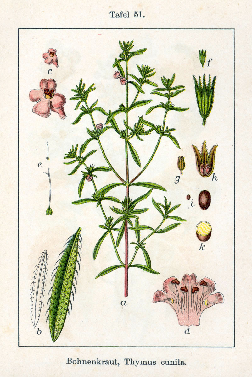 Satureja hortensis L., syn. Thymus cunila E.H.L.Krause Original Description Bohnenkraut, Thymus cunila